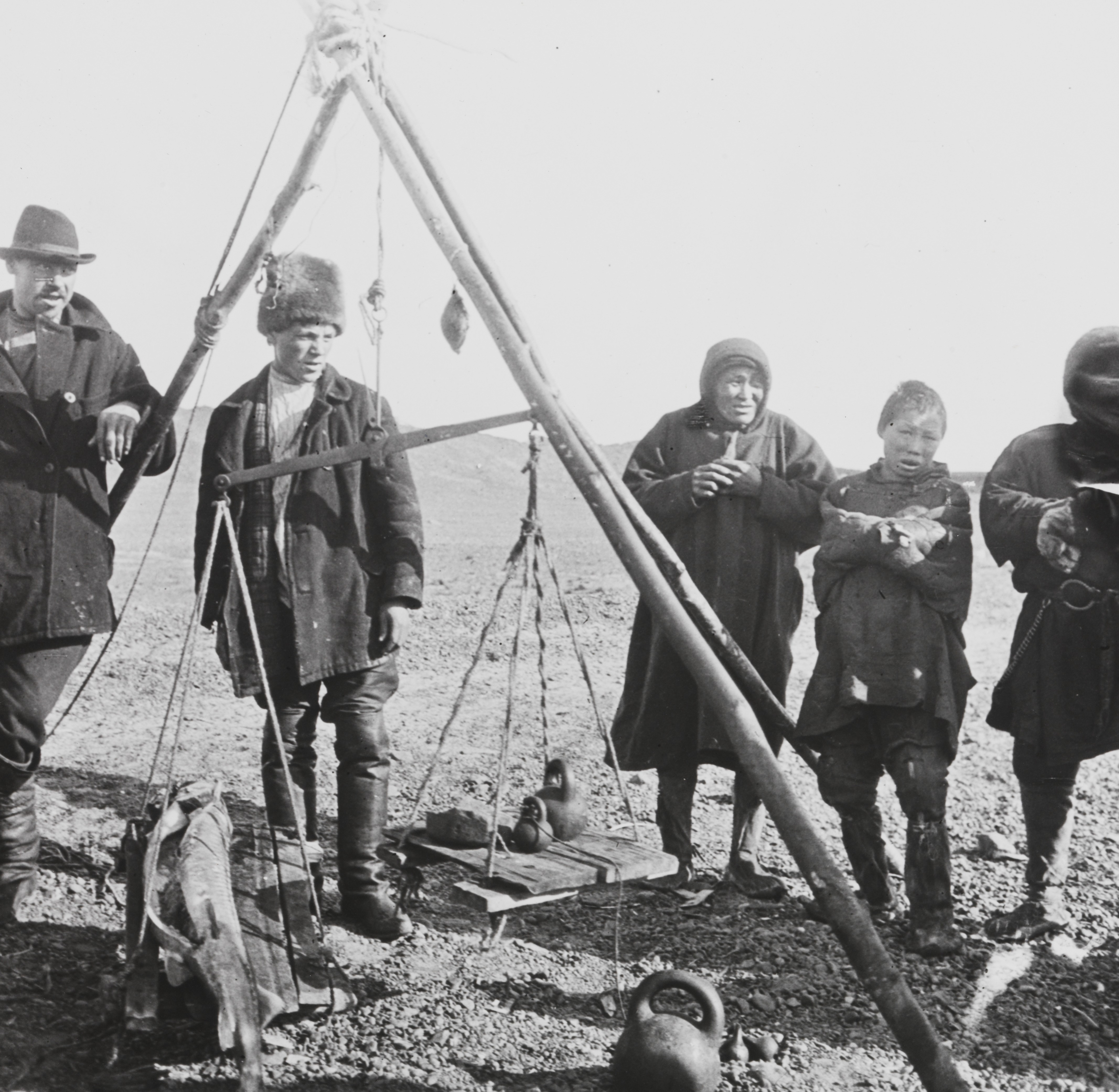 Enets people (ethnic group) watching the trading of fish. Here, a sturgeon bought by the crew on board the «Omul» is being weighed. One of the pictures from the journey to Siberia between Aug. 2 and Oct. 26, 1913. Fridtjof Nansen continued his trans-Siberian journey in a small steamer up the Yenisei River to Yeniseisk.